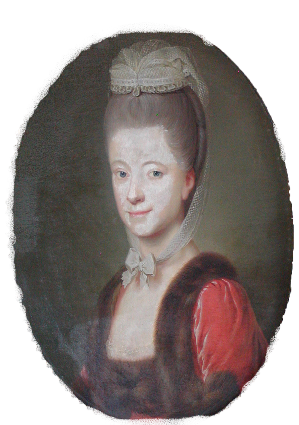 wife of Marcus Gerhard Rosen Crone